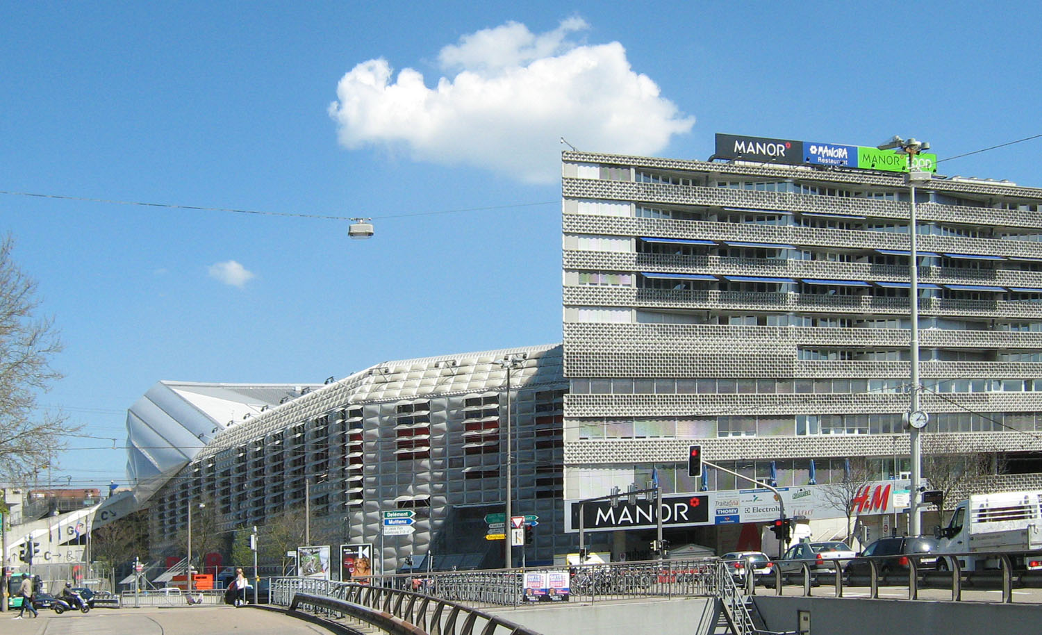 St. Jakob stade after the enlargement of 2008, outside view